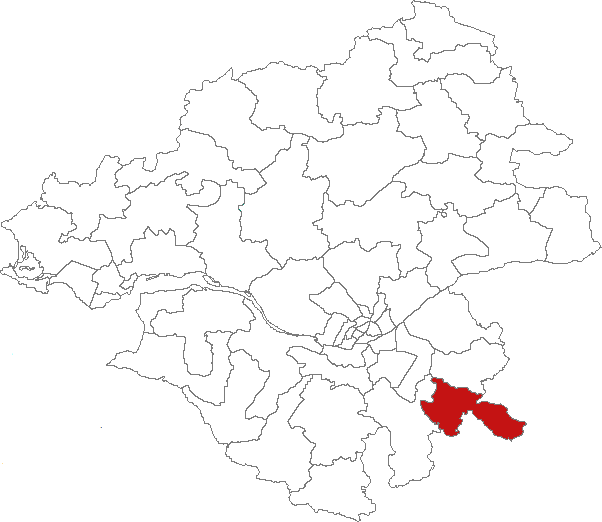 Map of canton of France : Canton de Clisson, Loire-Atlantique, France